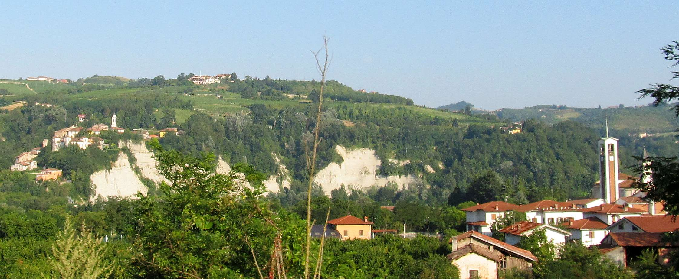 Clavesana (CN, Italy): panorama